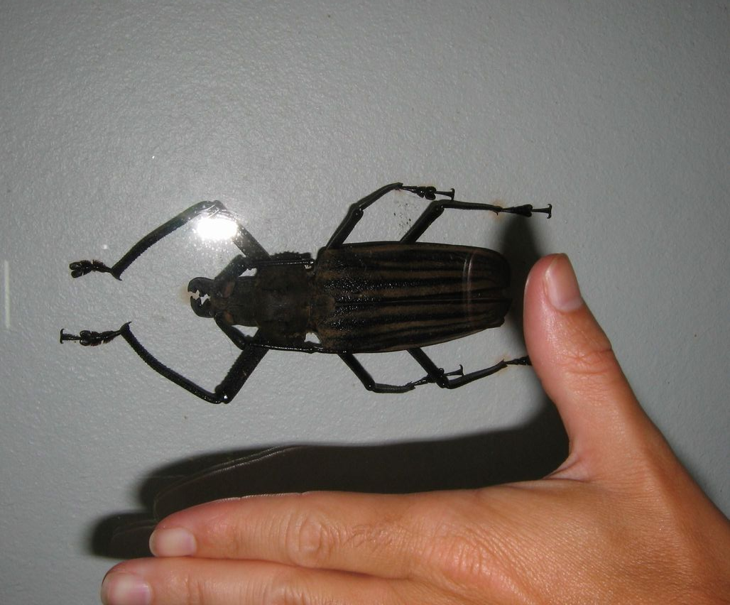 January 14, 2006. Korotogo, Fiji. Kula Eco-Park. Giant Fijian longhorn beetle, Xixuthrus heros. The beetle is just over 10 cm long. Note that it's behind the hand, so it's slightly larger than it looks.